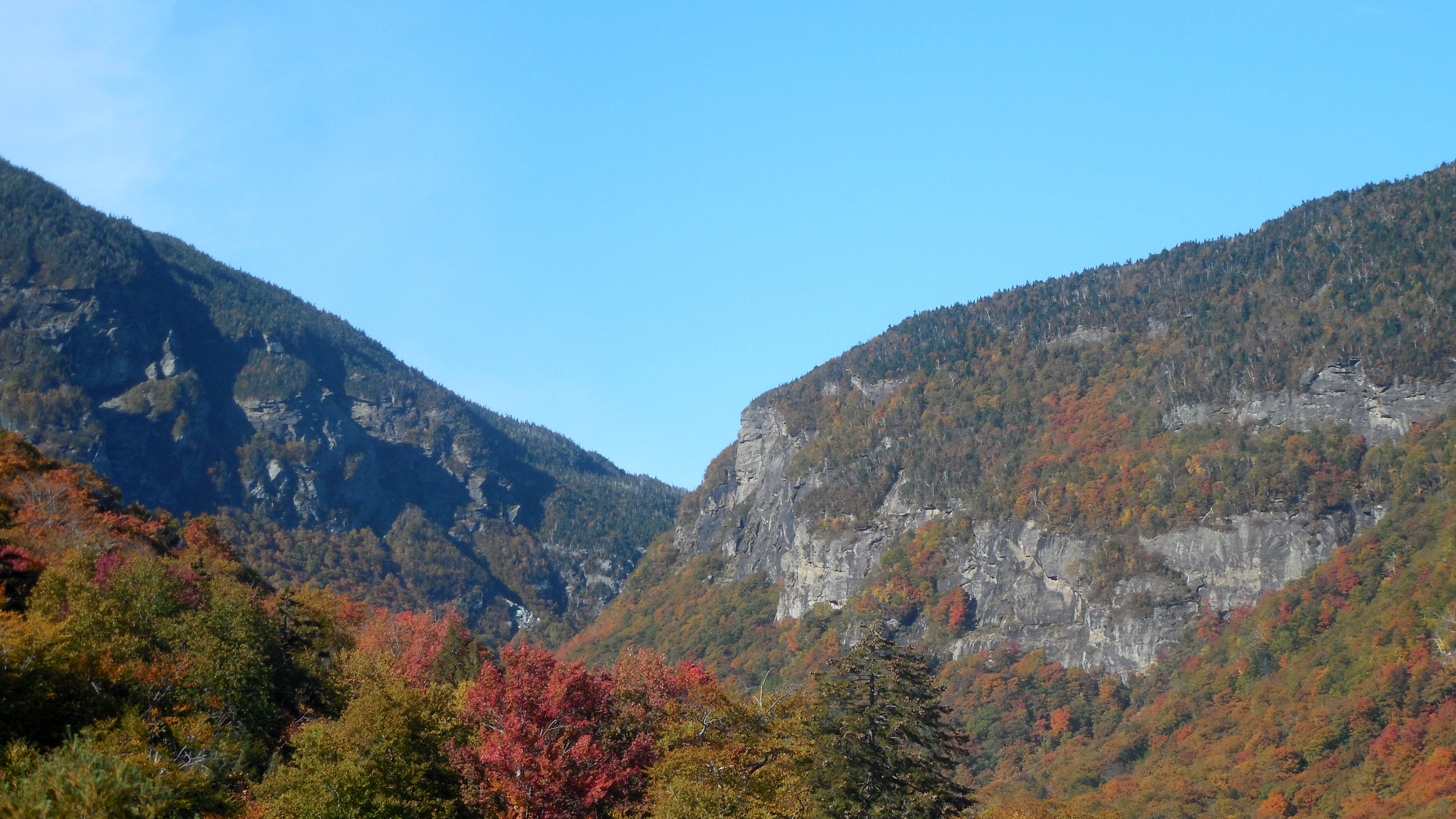 Smugglers' Notch view from the south, 2015